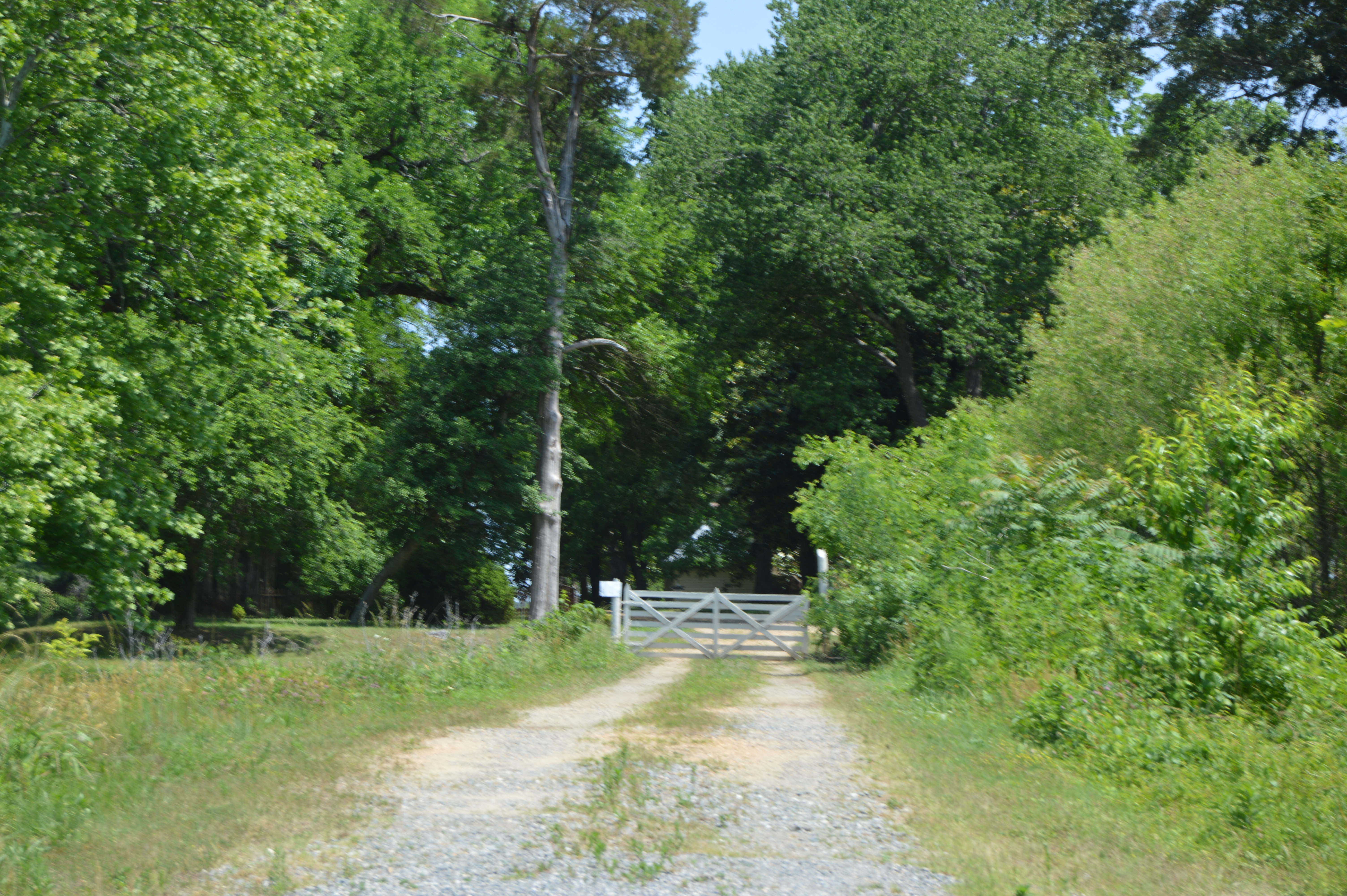 Entrance to the Wheatland estate, located at the end of Wheatland Road northeast of Loretto in Essex County, Virginia, United States. The estate is listed on the National Register of Historic Places.